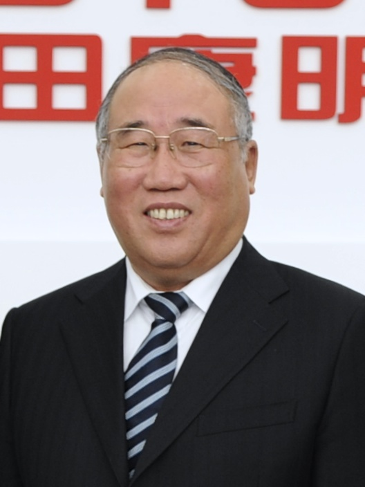 Chinese National Development and Reform Commission Vice Chairman Xie Zhenhua pictured after touring a clean-diesel engine assembly line at the Cummins-Foton Joint Venture Plant in Beijing, China with John Kerry and Todd Stern (not shown) on February 15, 2014. [State Department photo/ Public Domain]